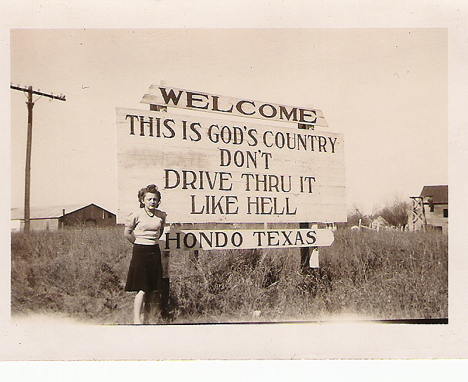 This photo was taken in Hondo, TX by my grandfather.